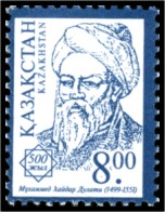 Stamp of Kazakhstan